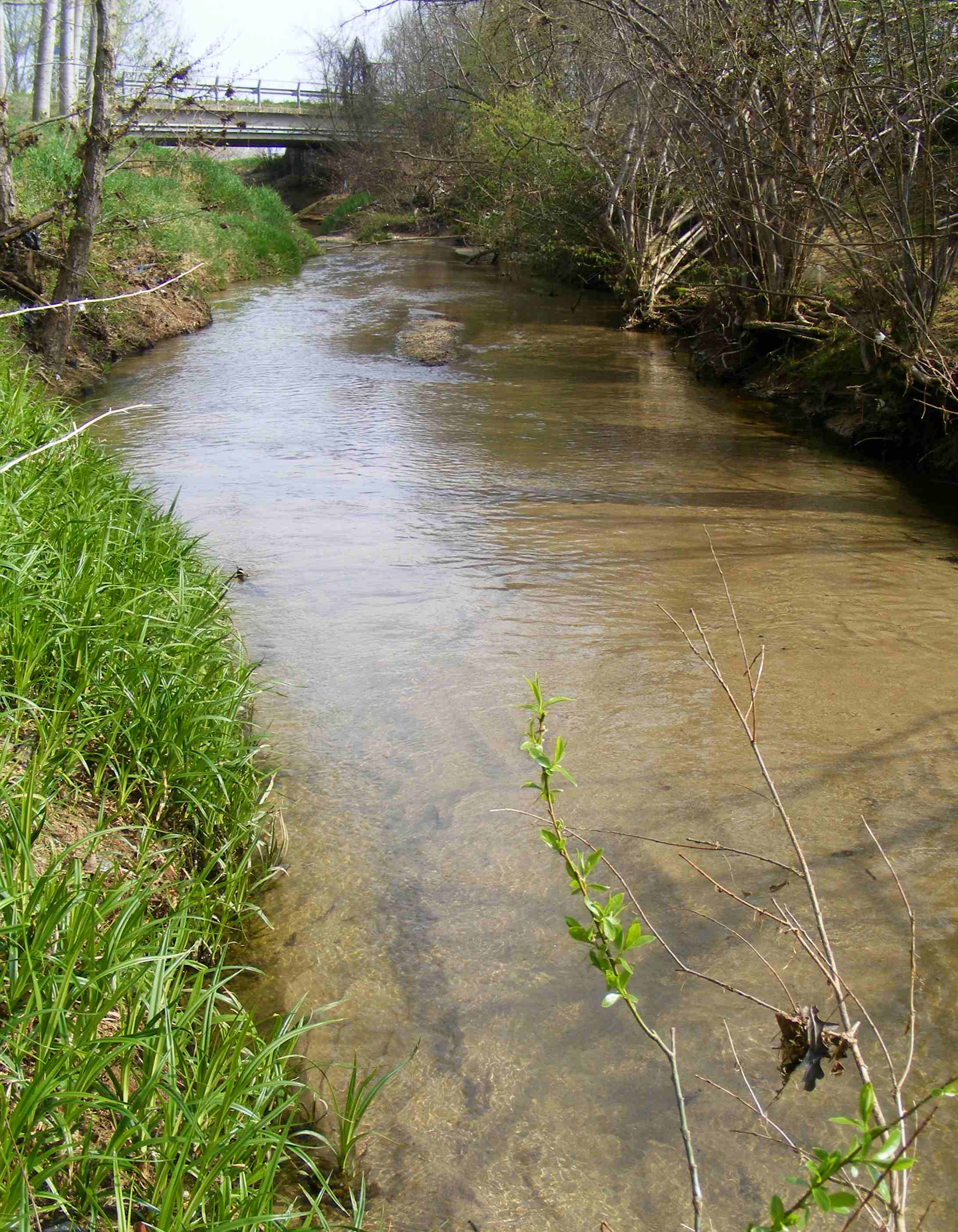 The Rioverde nearby Poirino (TO, Italy)